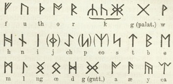 The original description page was here. All following user names refer to de.wikipedia.